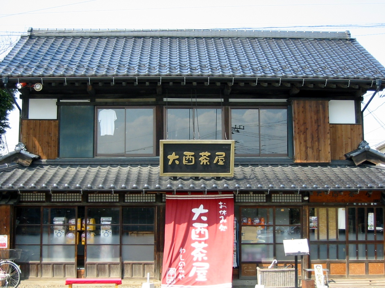 Ootori Chaya Washinomiya in Kuki, Saitama Japan